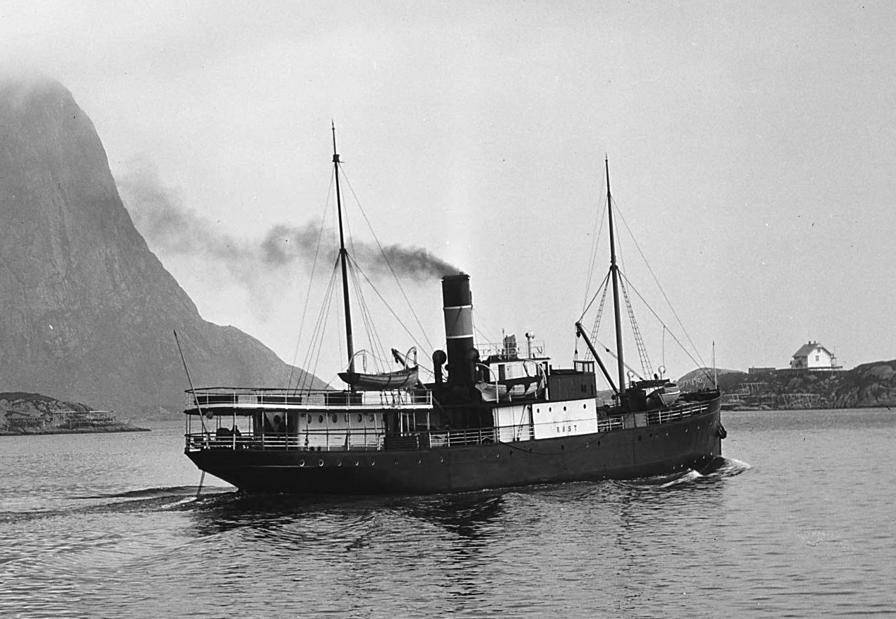 Norwegian steamship Røst (built in 1898) near Reine in Lofoten.